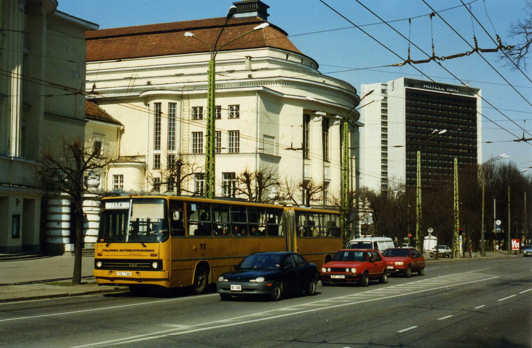 Ikarus 280 of Tallinna Autobussikoondis 133TAK or 133 TAK on Route 17A passing the Opera and Ballet Theatre in Tallinn The tall hotel is the Hotell Viru.